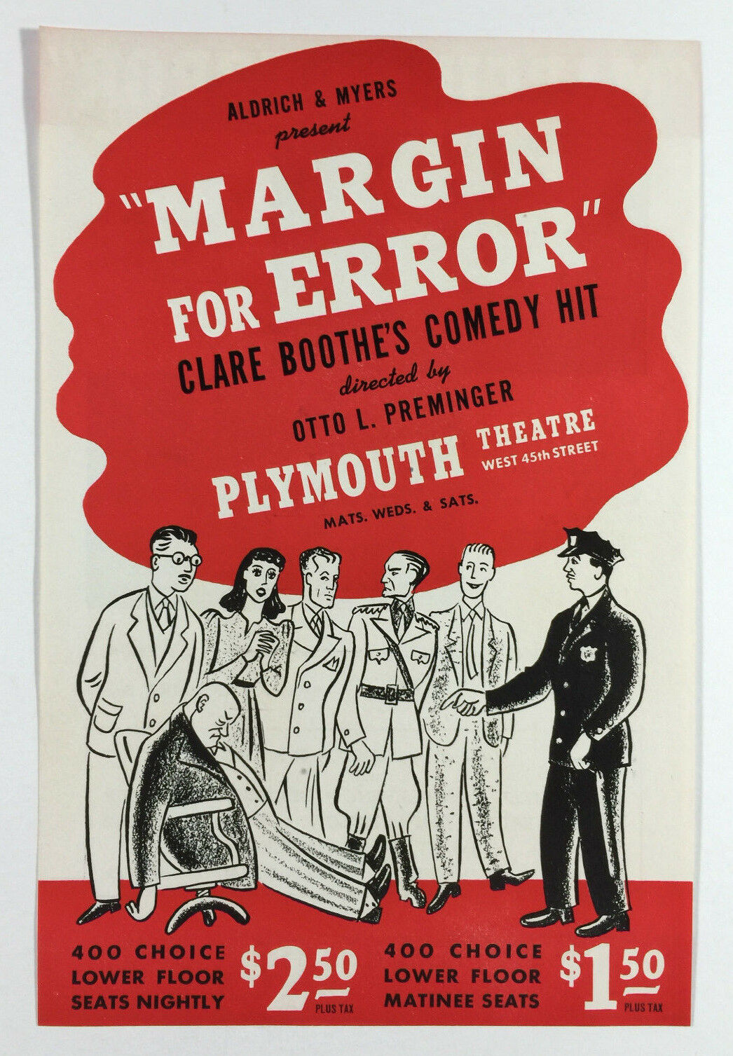 Front of a flyer advertising the Broadway production of Margin for Error, a play written by Clare Boothe Luce and produced by Richard Aldrich and Richard Myers.